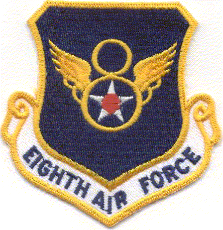 Patch with Eighth Air Force emblem A copy of this emblem was made from a cloth patch that was in my possession and was copyrighted by me in my book “The Genealogy of the STRATEGIC AIR COMMAND”.